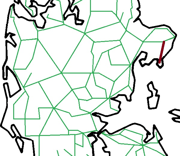 Map of railways in Middle Jutland in Denmark with the private railway Ebeltoft-Trustrup Jernbane in brown.